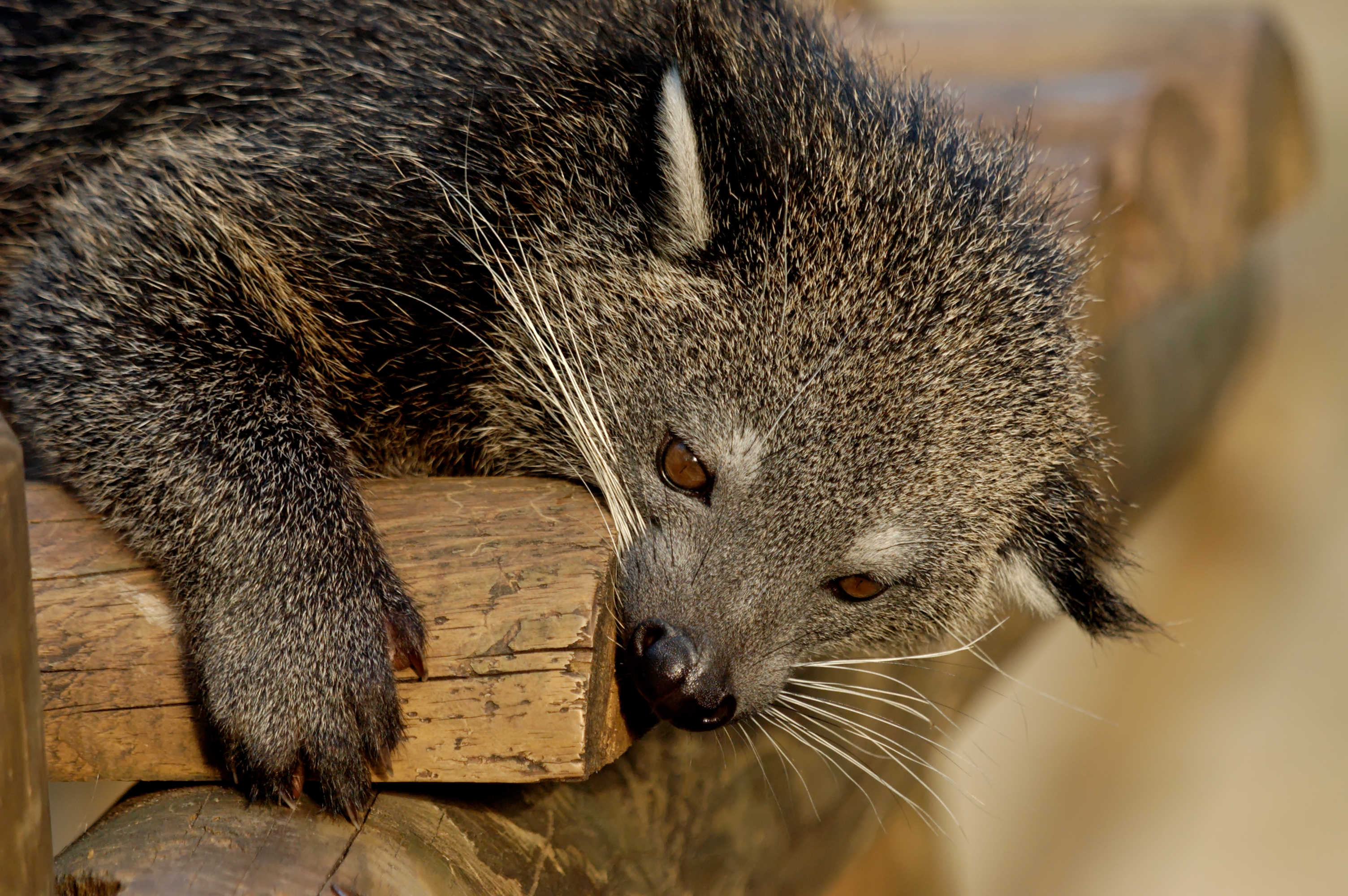 Head of an binturong (Arctictis binturong). Menagerie of the Jardin des Plantes in Paris (France).